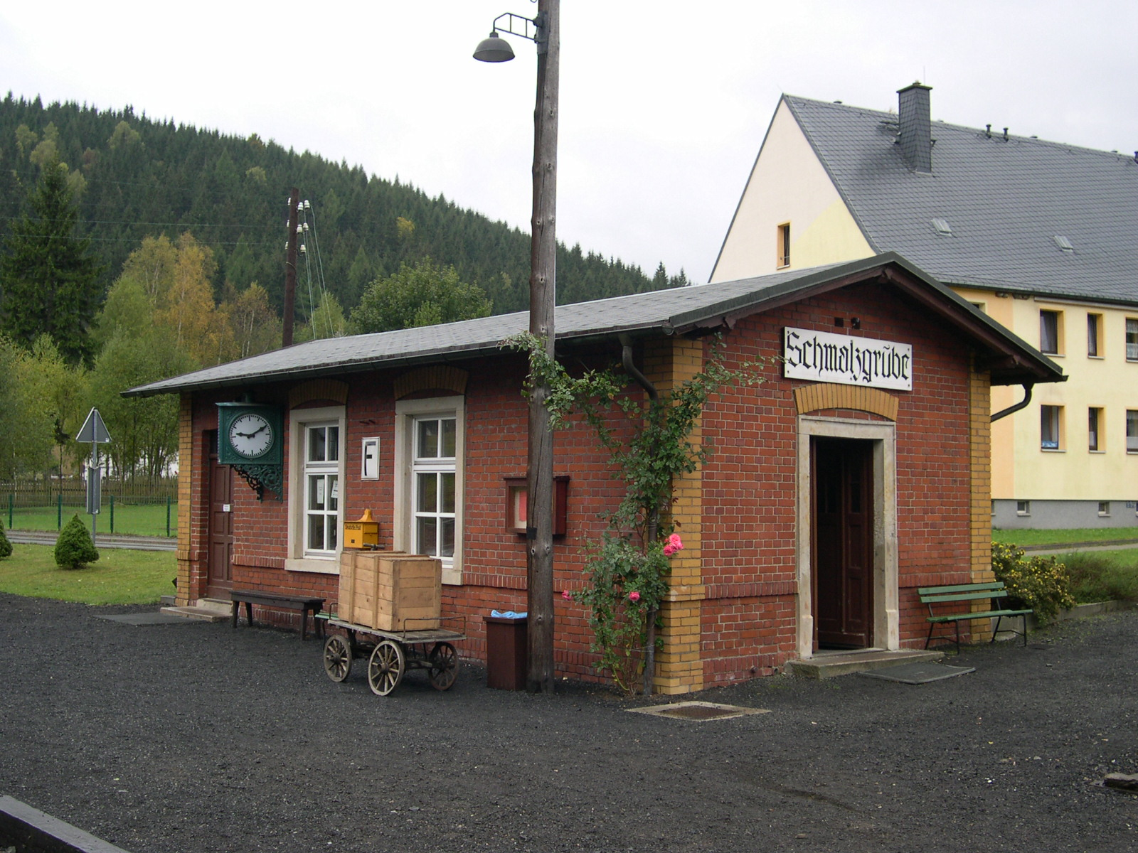 Pressnitztalbahn Narrow gauge railway Station Schmalzgrube